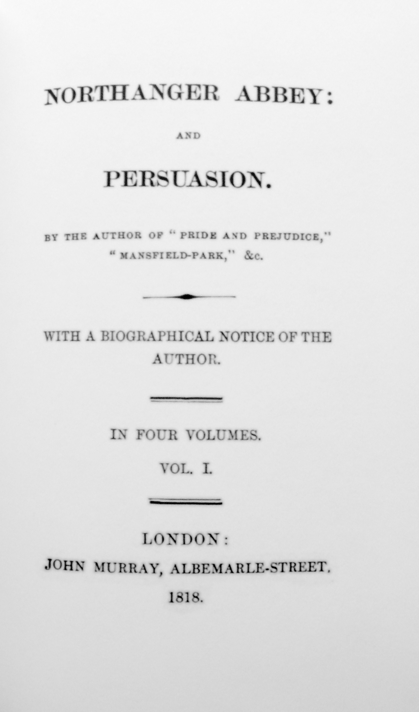 Title page of original edition of Northanger Abbey and Persuasion (1818)